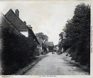 The hill of Moueiz, locally called "Bruges hill"